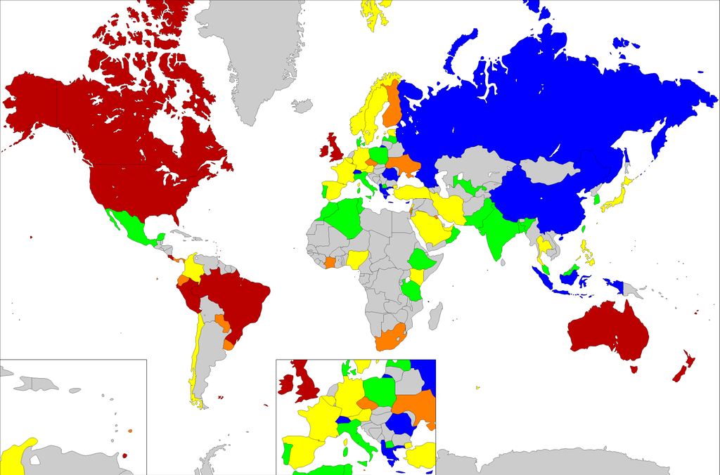 The global prevalence of asthma based upon statistics compiled in 2003.